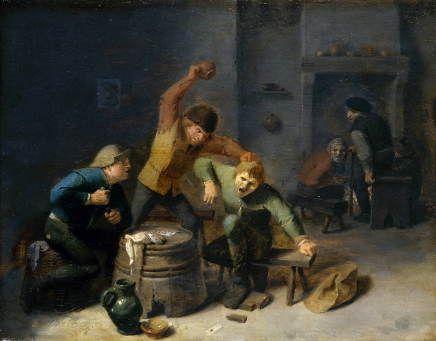 Genre work depicting smallholders brawling over a card game.